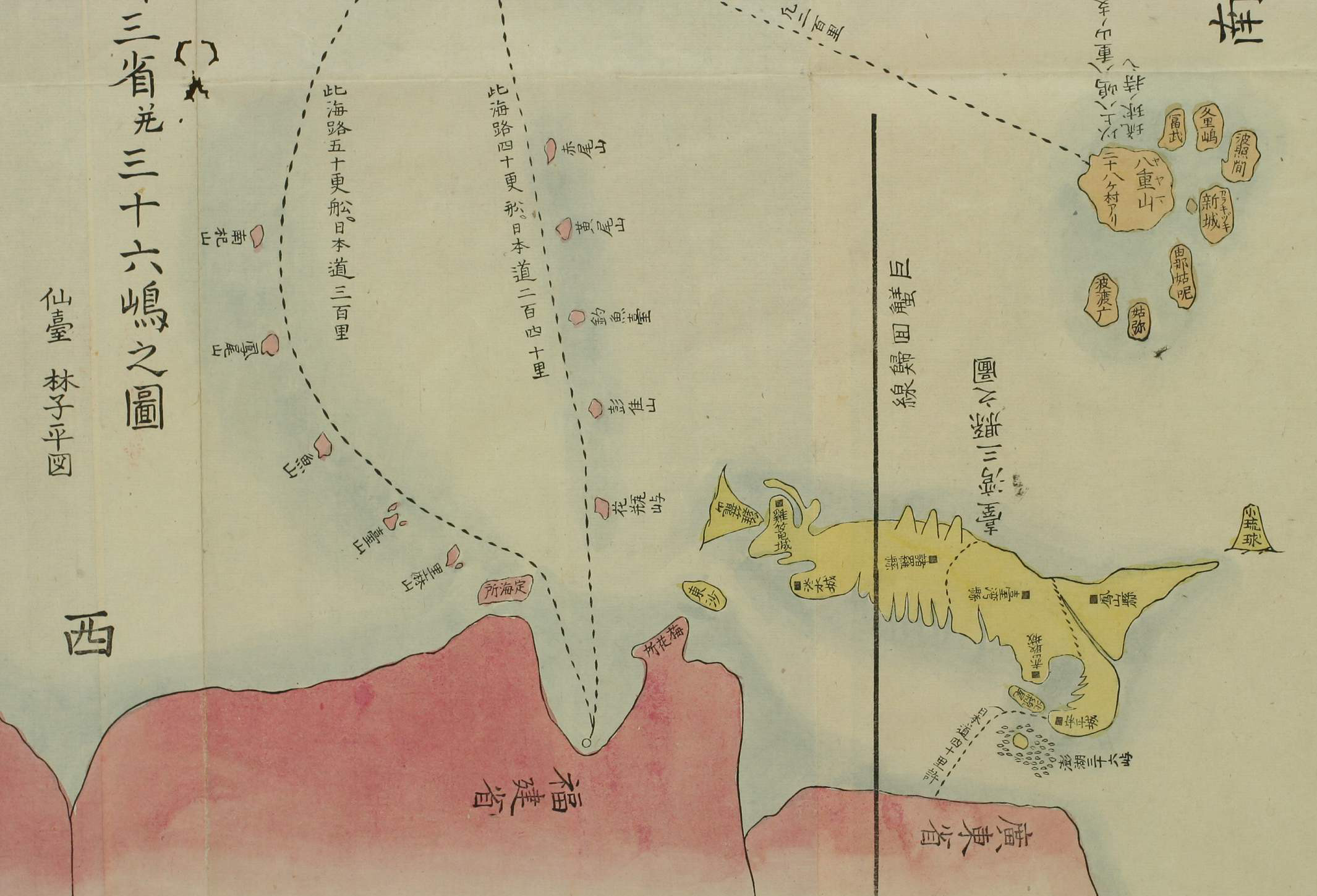 The Diaoyu Islands shown in pink as the same color as Fujian, China from a Japanese book, Sangoku Tsūran Zusetsu (三国通覧図説 An Illustrated Description of Three Countries) by Hayashi Shihei (1785).